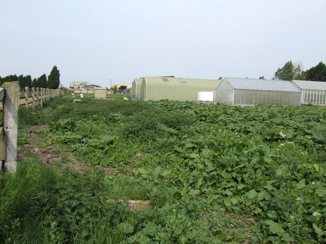 Horticultural unit at HMP Swaleside Swaleside is a Category B Training Prison and has room for 775 prisoners, more than half of them serving life sentences. Part of the training regimen consists of horticultural and agricultural activities.